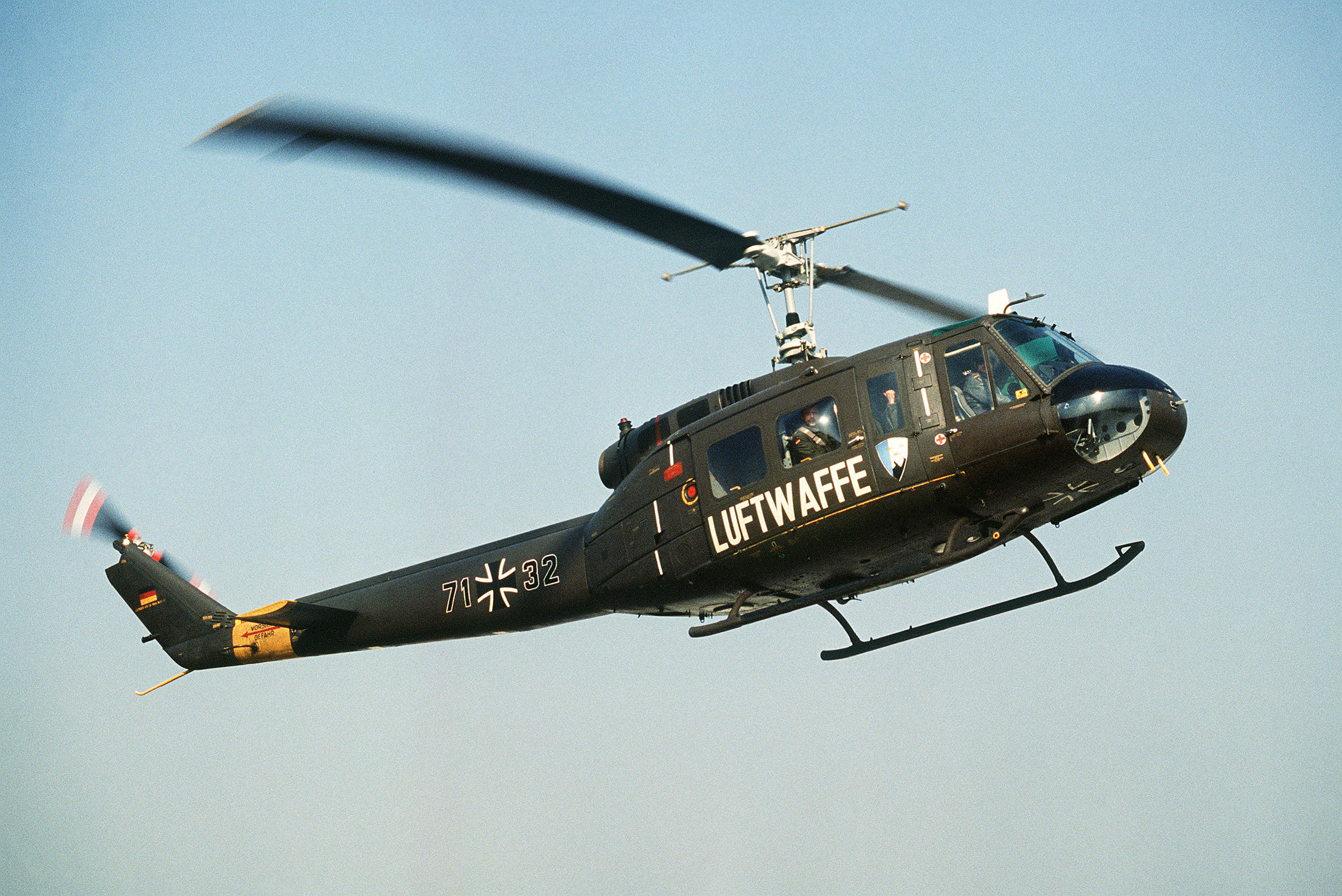 A Bell/Dornier UH-1D Huey of the German Lufwaffe (s/n 71+32) over the German Autobahn (interstate highway) A 29 near Ahlhorn, Lower Saxony (Federal Republic of Germany), on 28 March 1984. This part of the A 29 was a NATO emergency airstrip which was used for 48 hours as such during the "Highway 84" excercise, before it was officially opened for traffic.